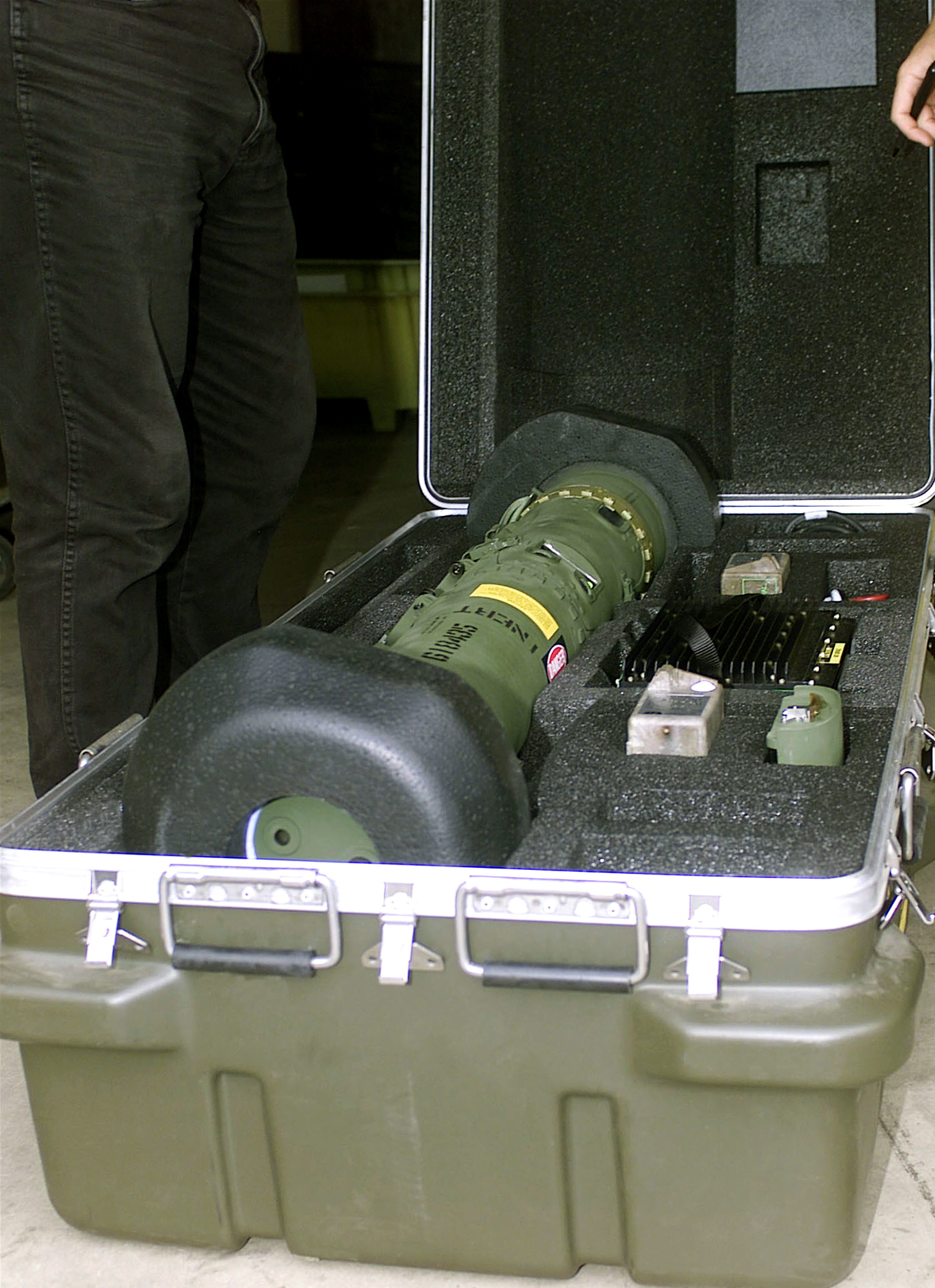 A box with a FGM-148 Javelin-launcher in it